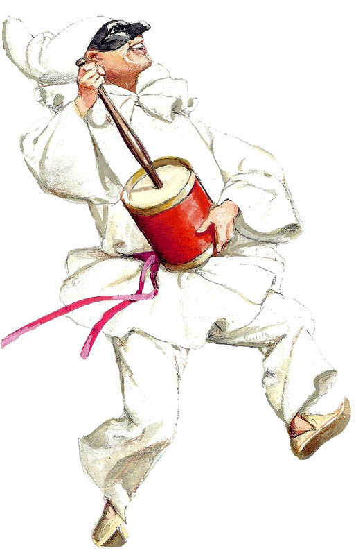 Pulcinella in a nineteenth-century print